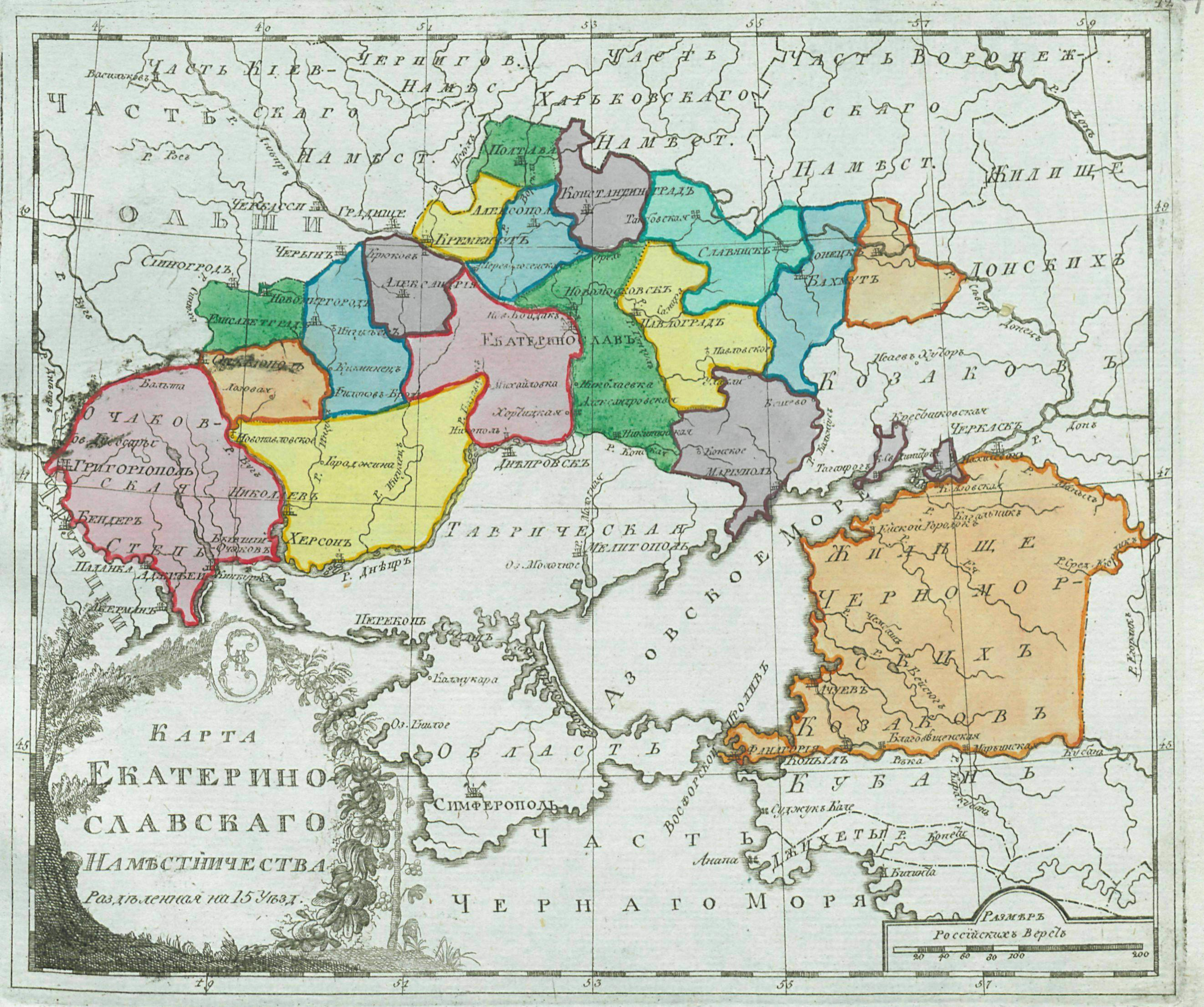 Small atlas of the Russian Empire (1792). Map of Yekaterinoslav Namestnichestvo (map 41).